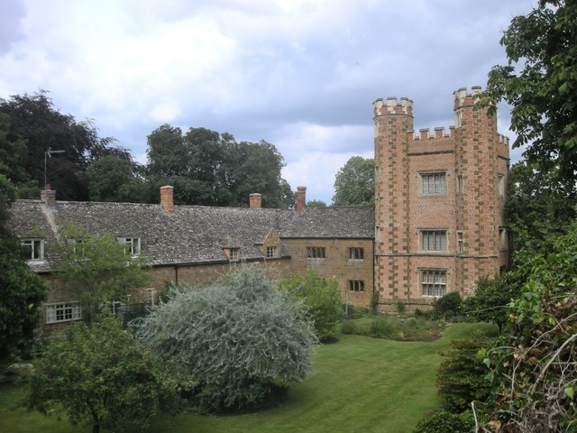 Hanwell Castle, Oxfordshire